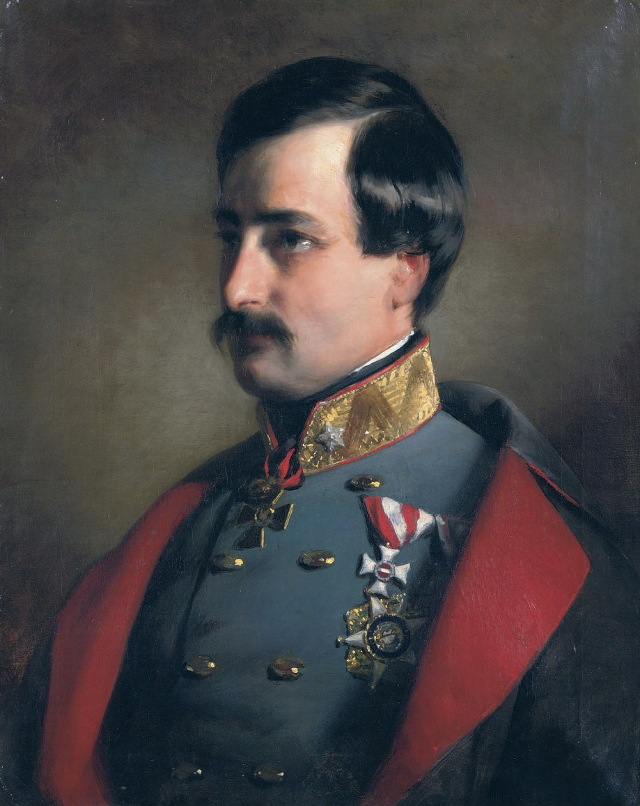 Caption from Christie's Count Alexander von Mensdorff-Pouilly (1813-1871), was an Austrian politician, including one month's service as Minister-President of Austria. He was furthermore Austrian ambassador to St Petersburg and England. Mensdorff-Pouilly accepted the family name and the family title after his marriage to Countess Alexandrine von Dietrichstein-Proskau-Leslie (1824-1906), the owner of the manor of Mikulov. Mensdorff was a cousin of Queen Victoria through his mother, Sophie Coburg and Gotha, who was the direct aunt of Queen Victoria. His portrait created by painter Franz Xaver Winterhalter (1805-1873) in London in 1847, in the possession of the current English Queen, is kept in the collection of Osborne House, a residence on the Isle of Wight.